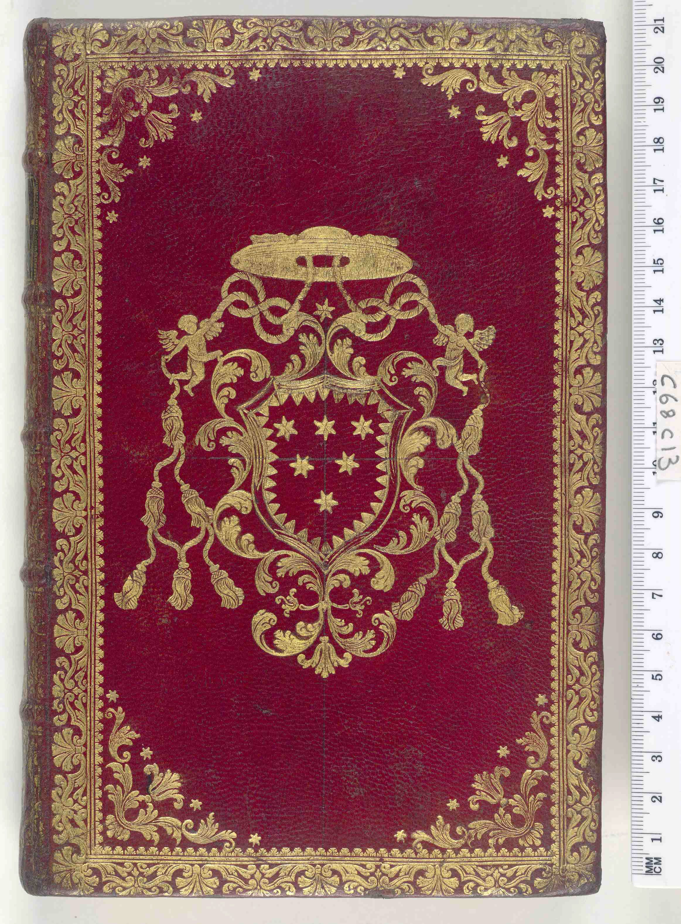 Style: Armorial; Caption: Upper cover; Colour: Red; Edge: Unspecified